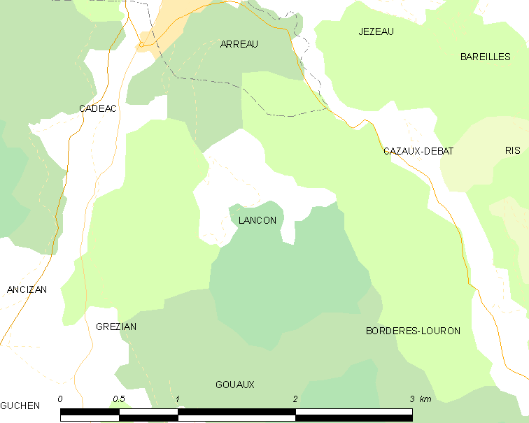 Map of French municipality